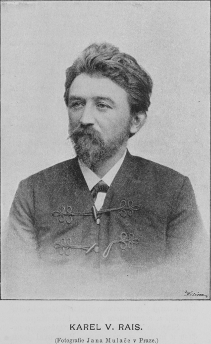 Photograph of Karel Václav Rais (1859 - 1926), Czech writer.